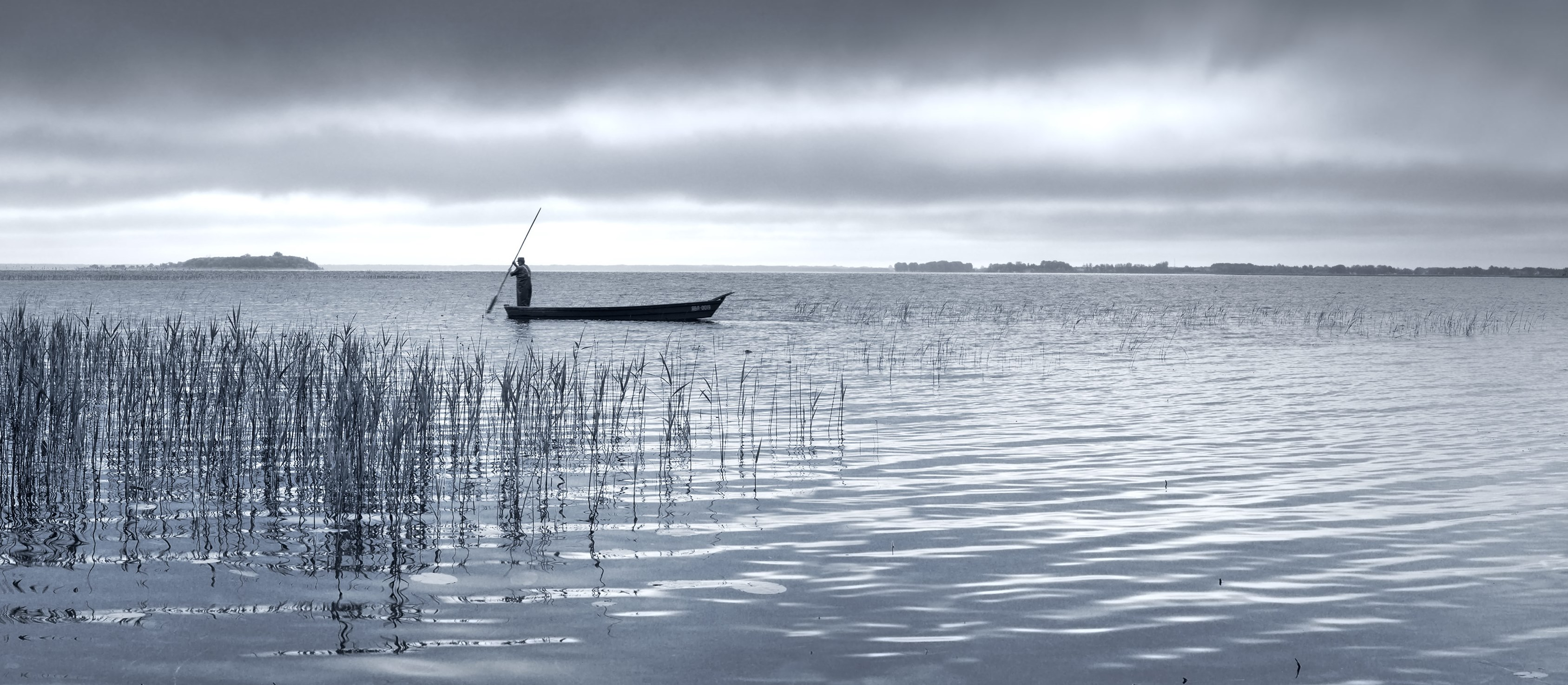 Lake Svitiaz at Sunrise. Shatsk National Park, Volyn Oblast